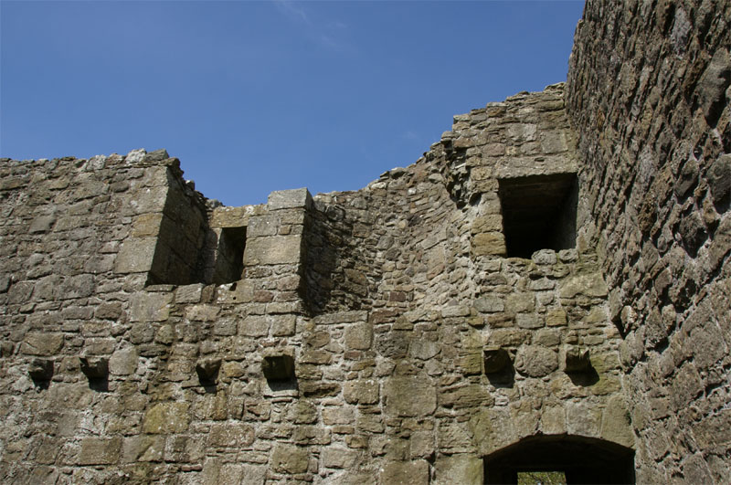 Lochleven Castle (Kinross, Scotland) - tower interior